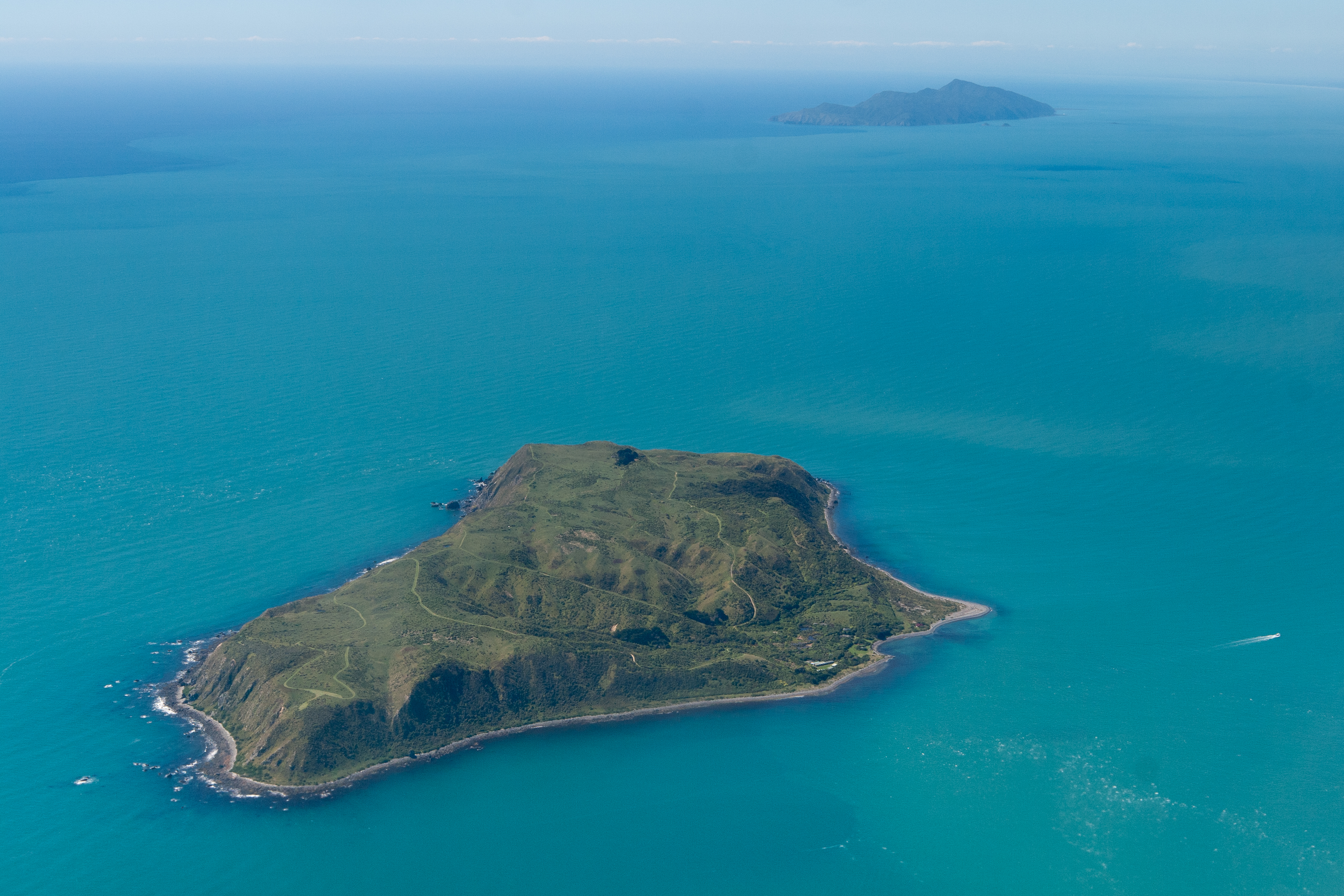 Aerial view of Mana Island, with Kapiti Island behind. Off the coast near Porirua, Wellington, New Zealand.